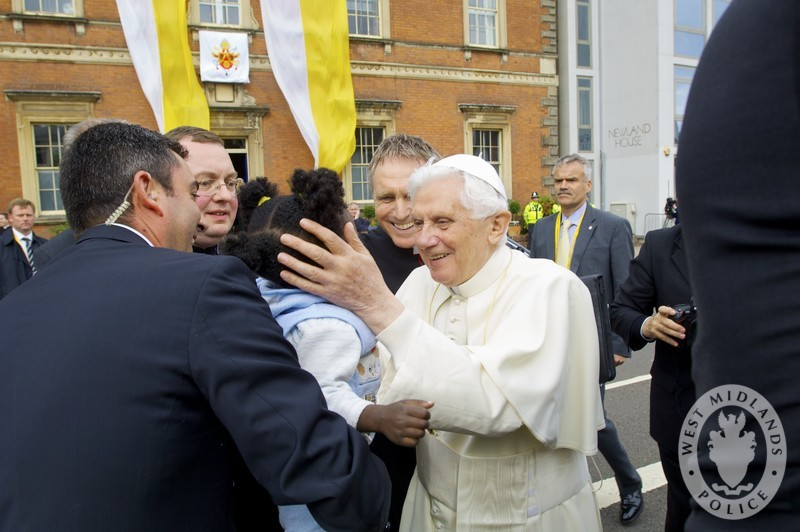 With Pope Benedict XVI retiring today, we thought we'd show a few images from his visit to Birmingham in September 2010.